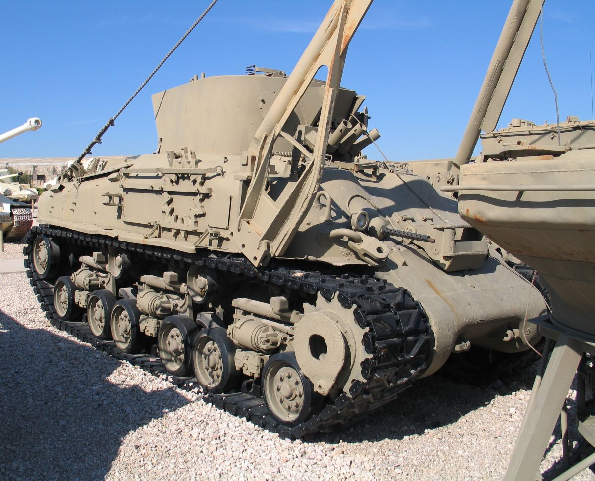 Description: M32 ARV (HVSS variant) in Yad la-Shiryon Museum, Israel. 2005. Source: Photo by me, User:Bukvoed.